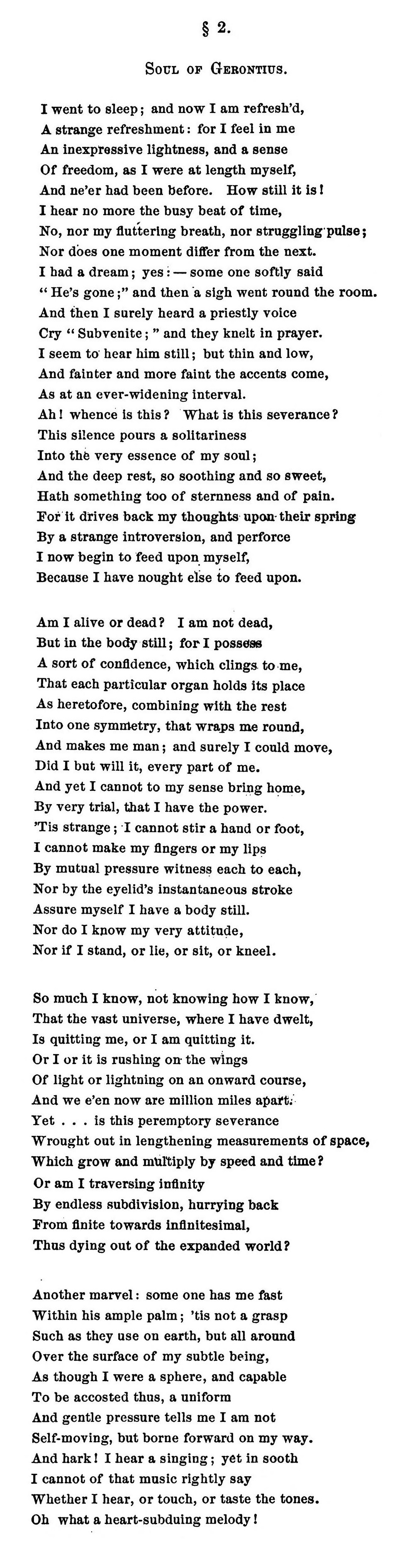 John Henry Newman: The Dream of Gerontius, beginning of part II